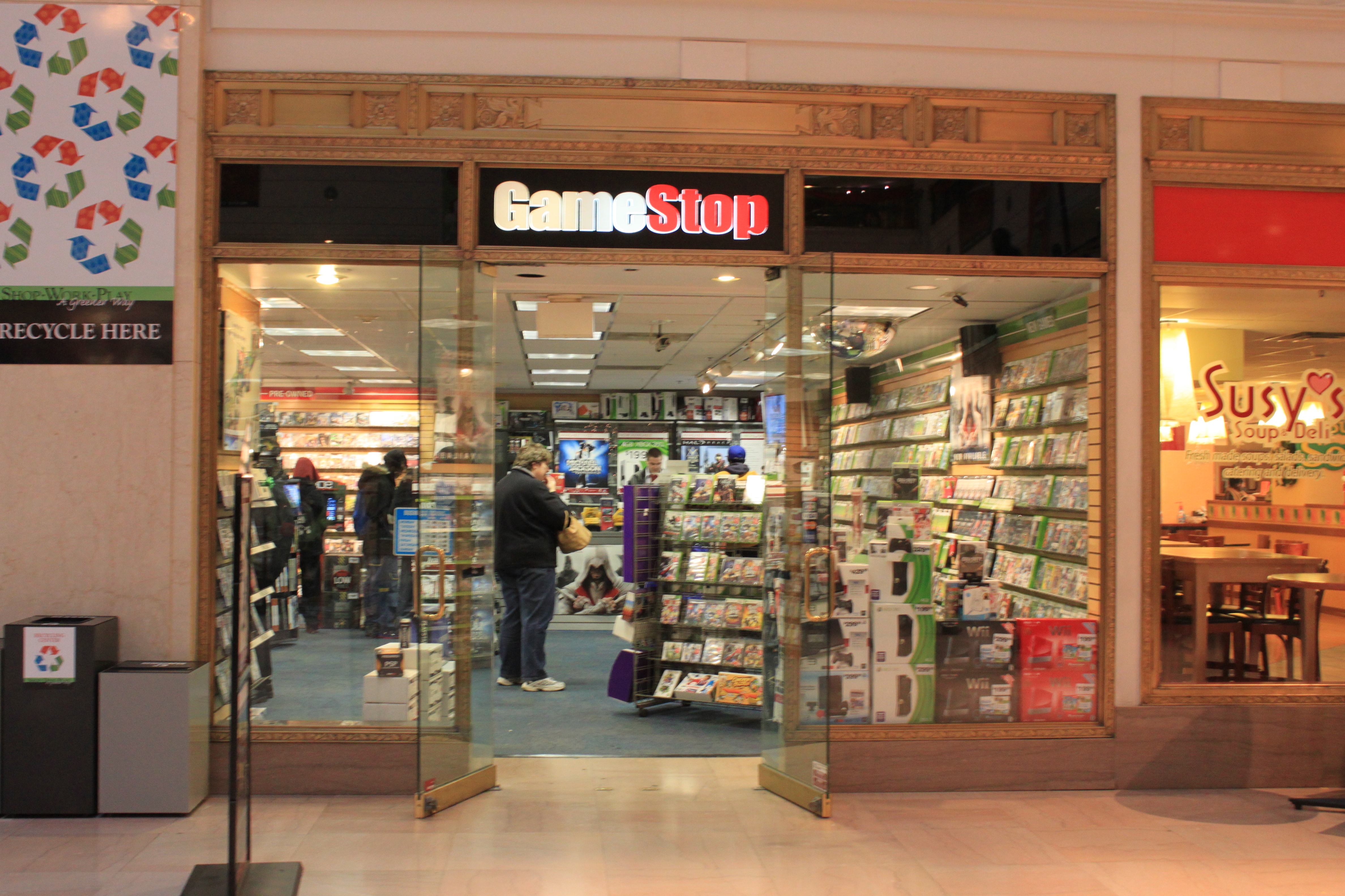 GameStop store in Tower City Center, Cleveland, Ohio